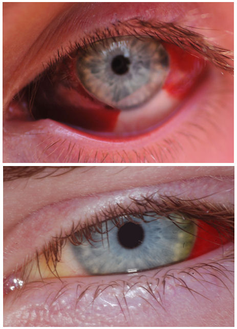 Subconjunctival hemorrhage one week afer hemmorage (top) and four weeks after hemorrhage (bottom)